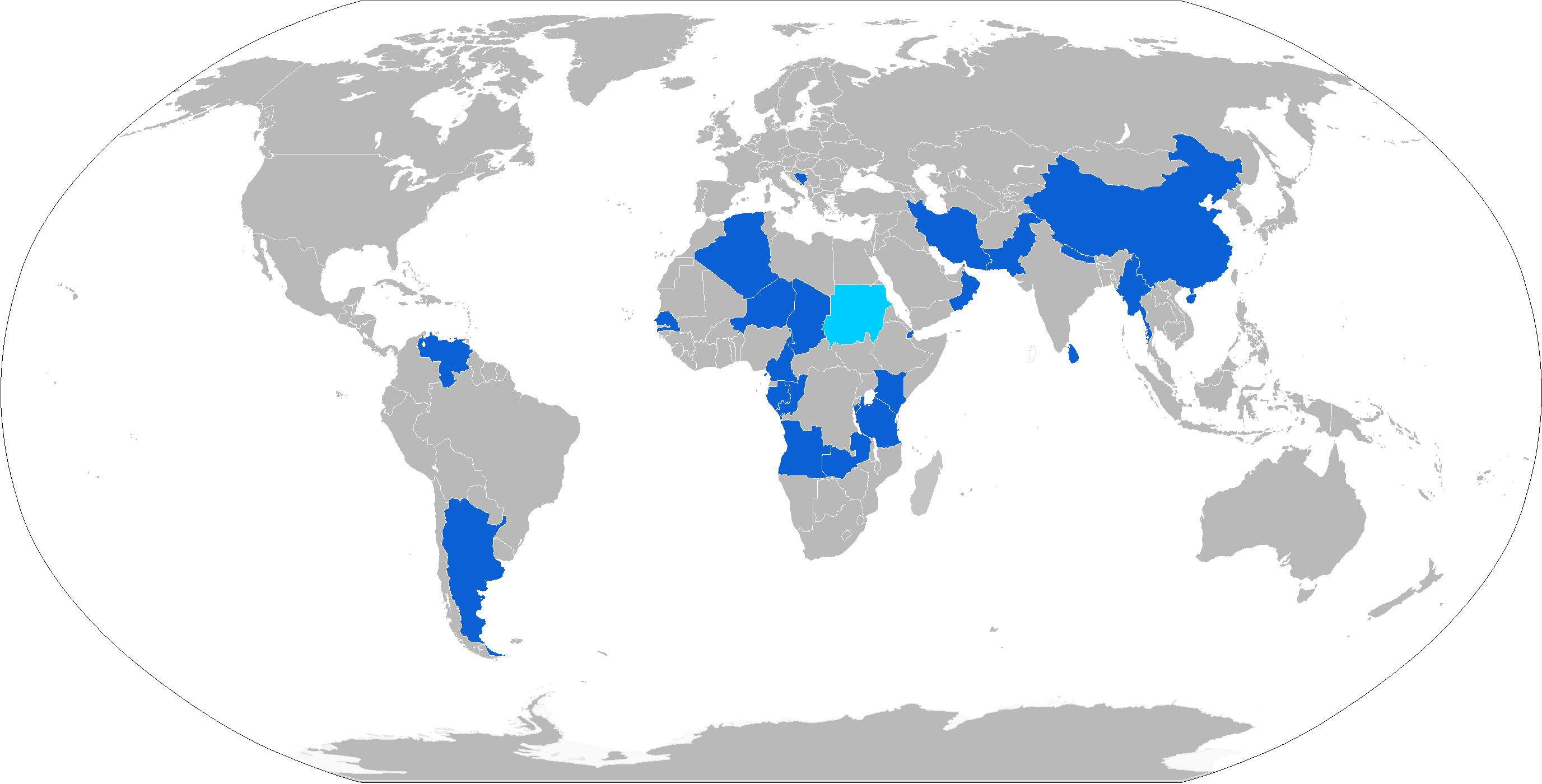 Map of WZ551 operators in blue